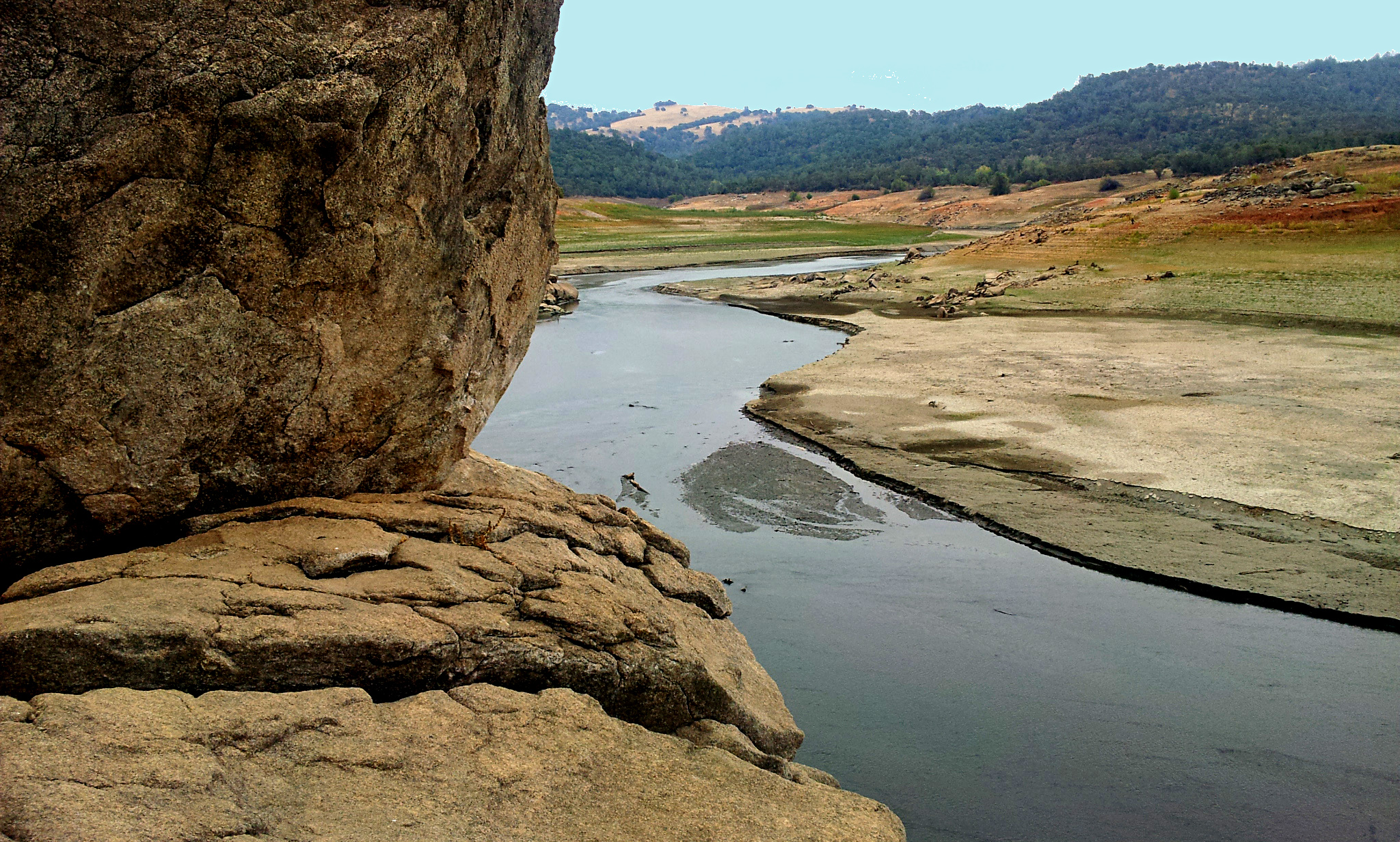 North fork of American River in Placer County California